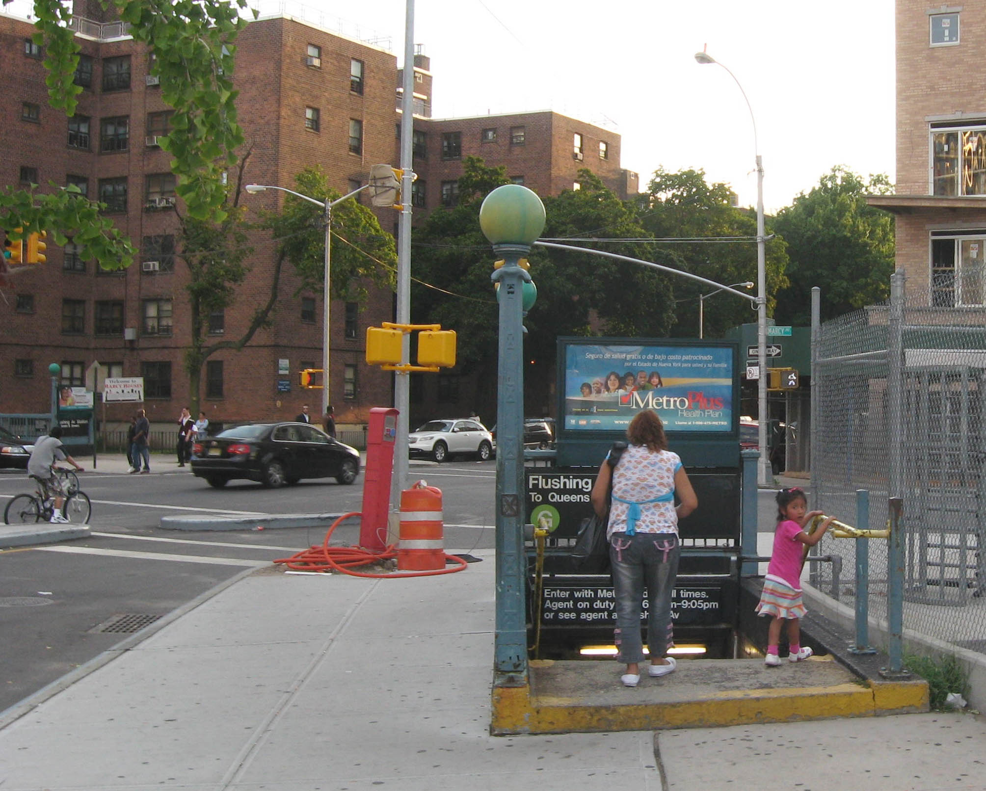 Looking southwest along Gerry Street towards Marcy Avenue and Flushing Avenue (IND Crosstown Line) on a cloudy dusk.